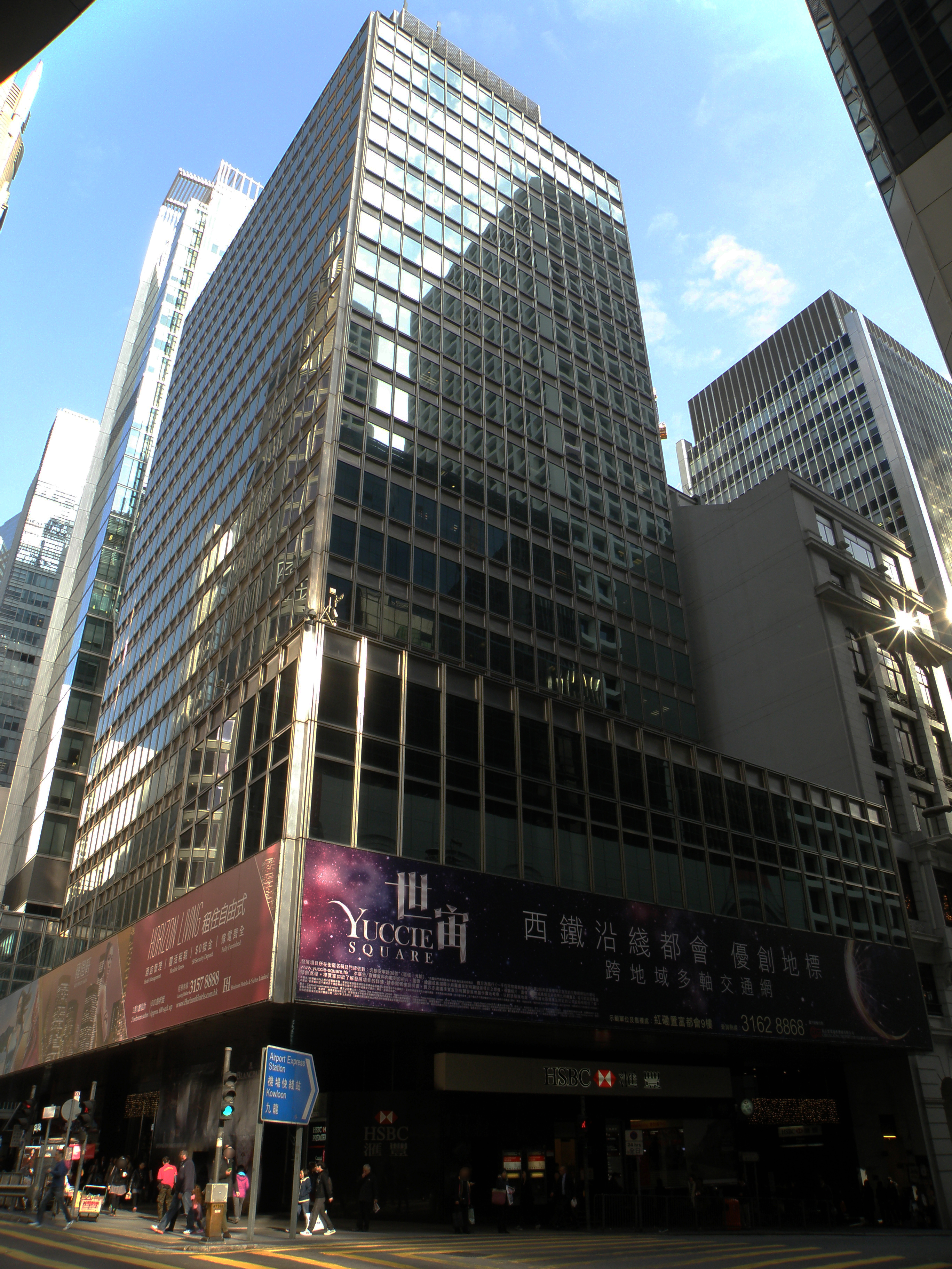 China Building in Central, Hong Kong.